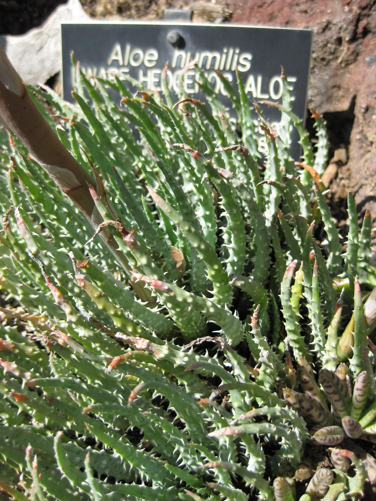 Photographed at Huntington Gardens (Los Angeles, California) in March